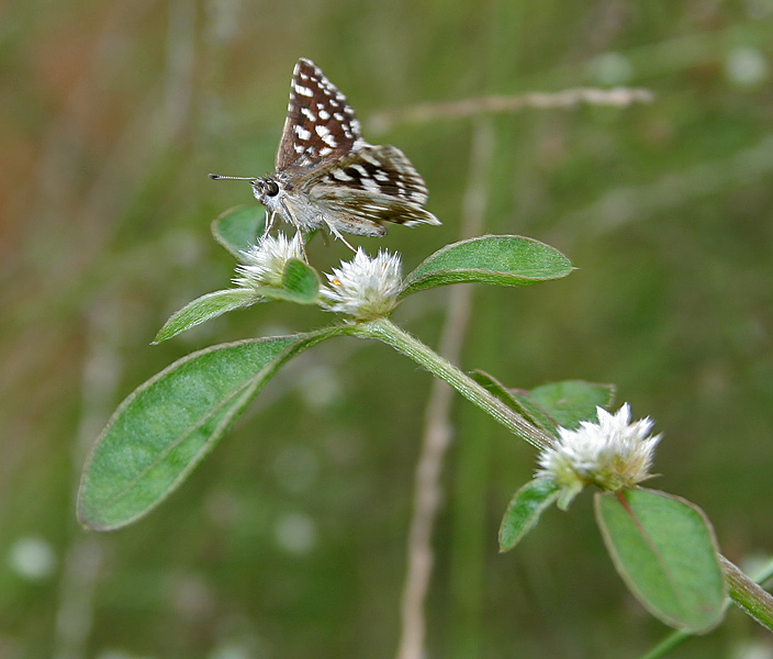 Alternanthera tenella in Hyderabad , India.